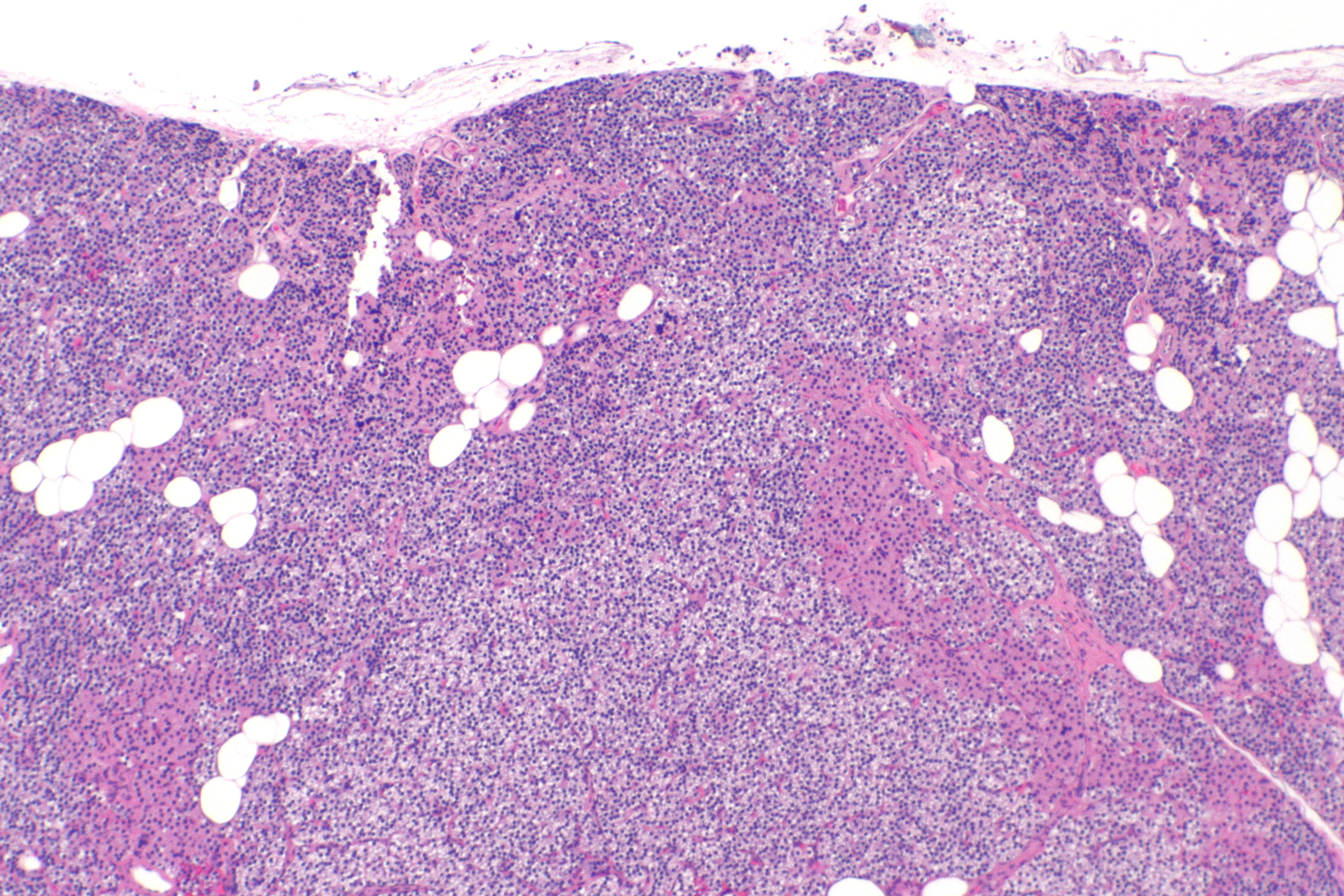 Micrograph showing a parathyroid hyperplasia. H&E stain. Parathyroid adenoma is a clinicopathologic diagnosis. The histology is nonspecific. Related images PA - very low mag. PA - low mag. PA - intermed. mag. PA - high mag.